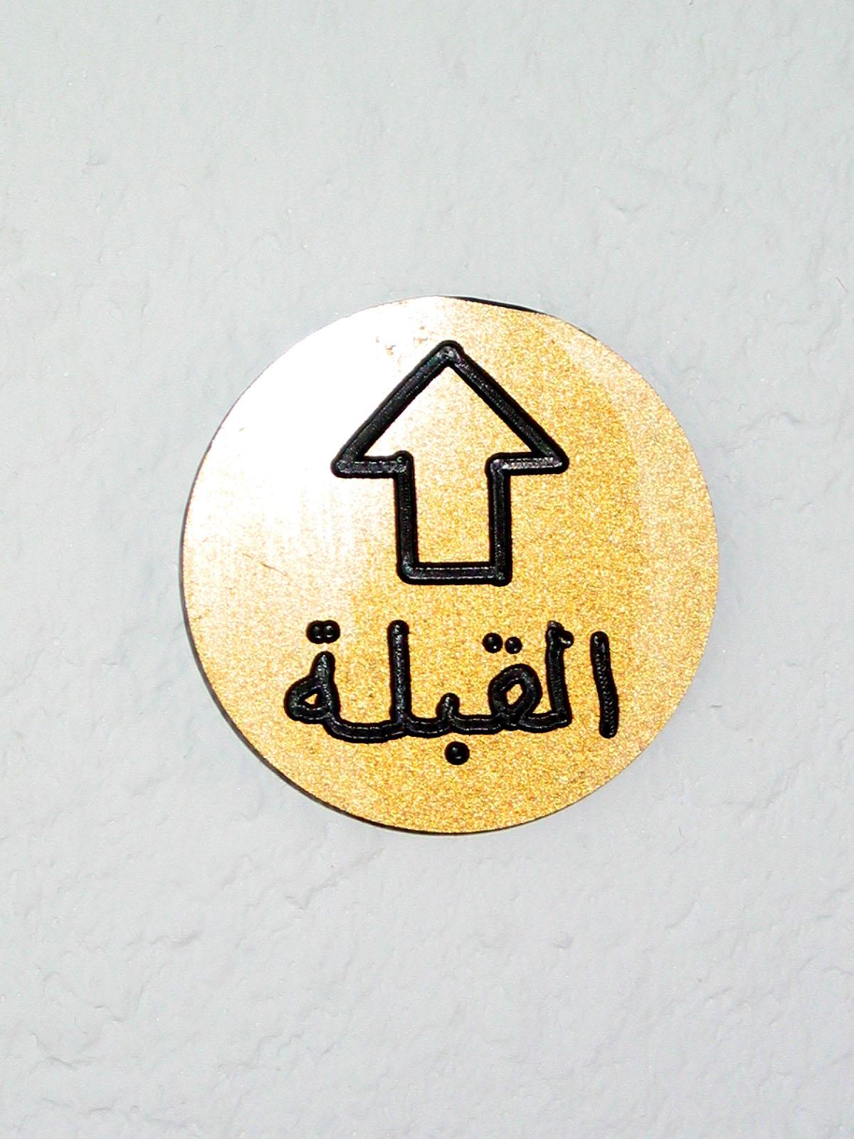 Sign of the direction of prayer (qibla)